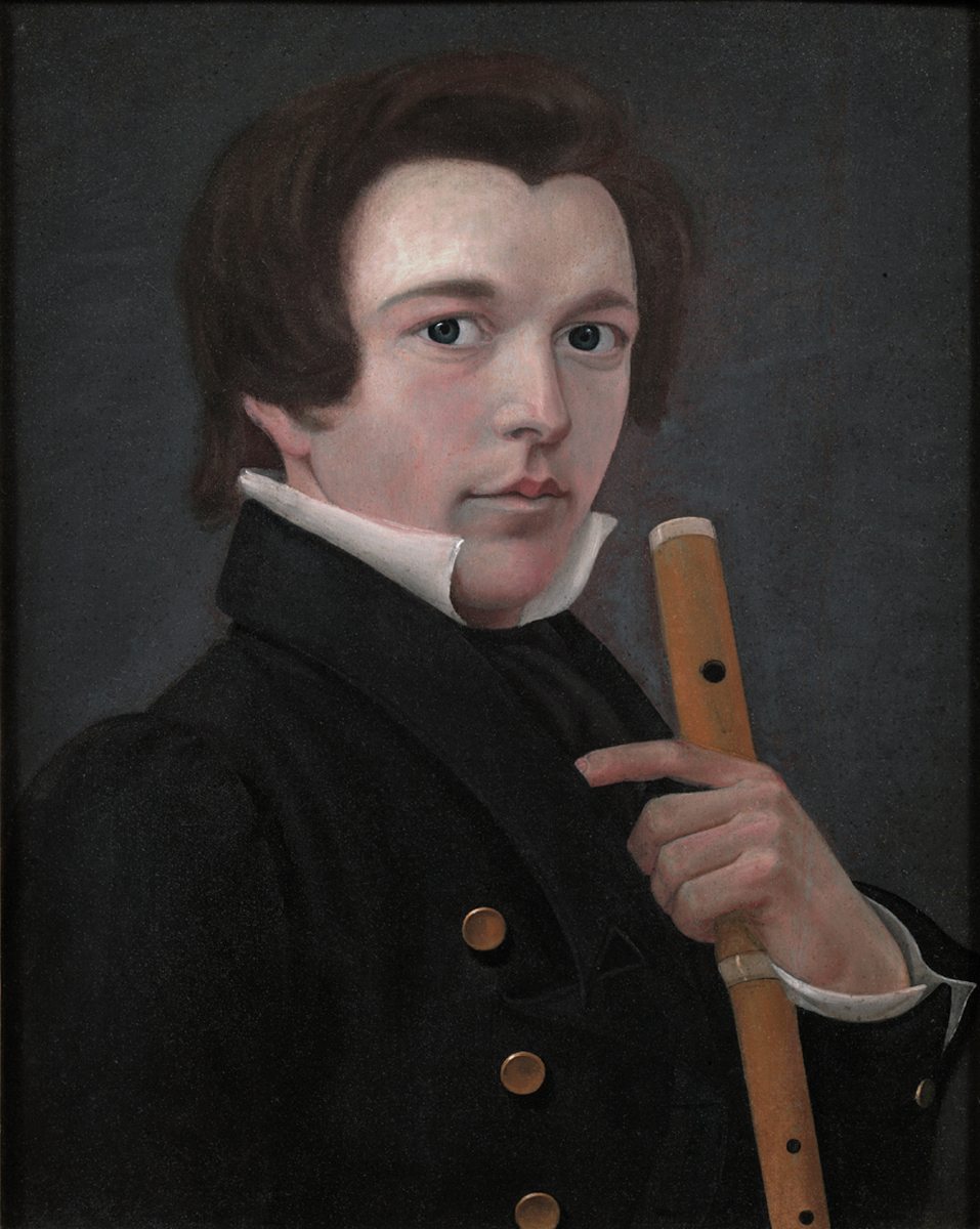 Self portrait with flute oil on panel 40 x 50,16 cm 1828